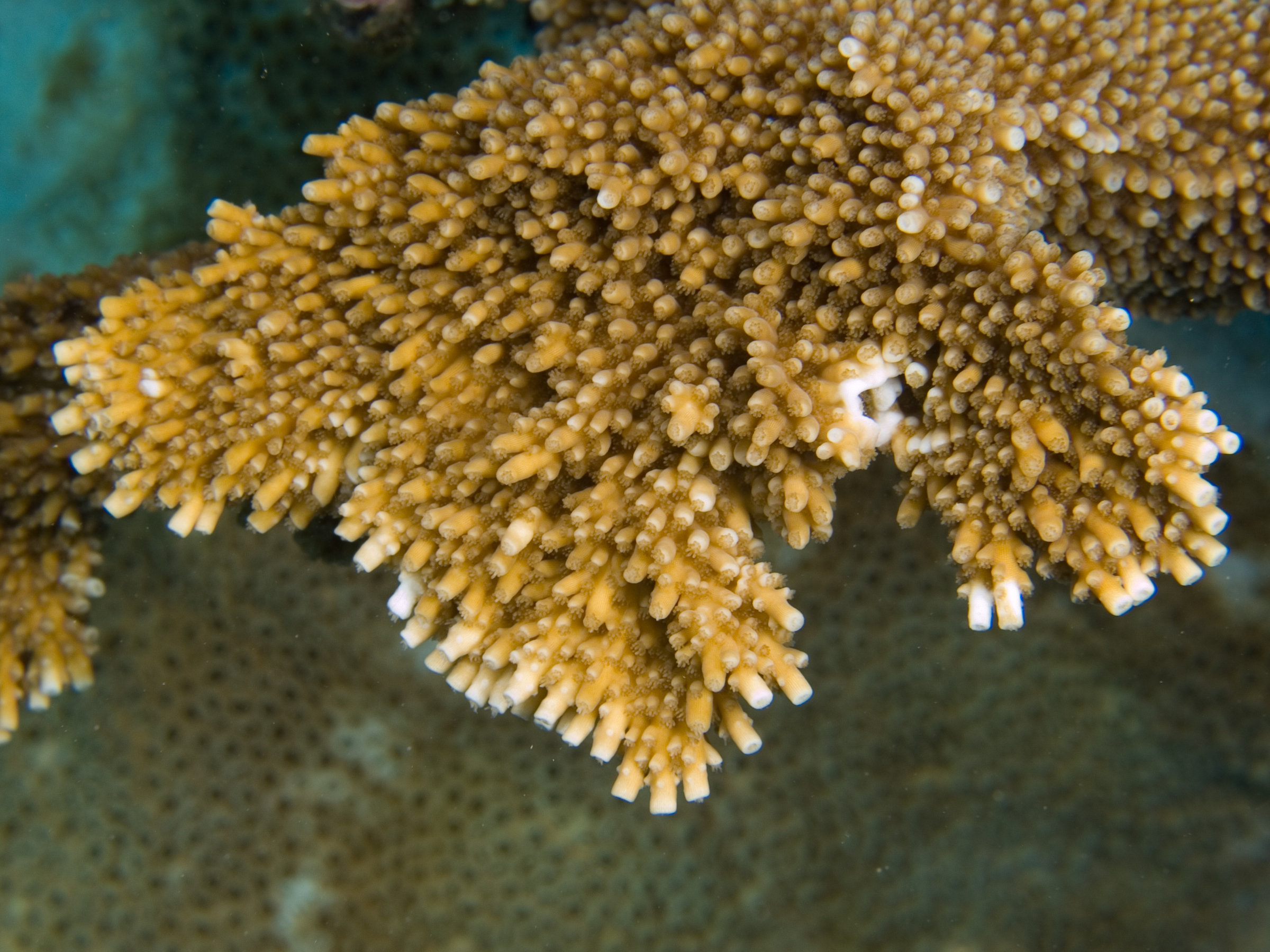 Acropora palmata (Elkhorn Coral) closeup